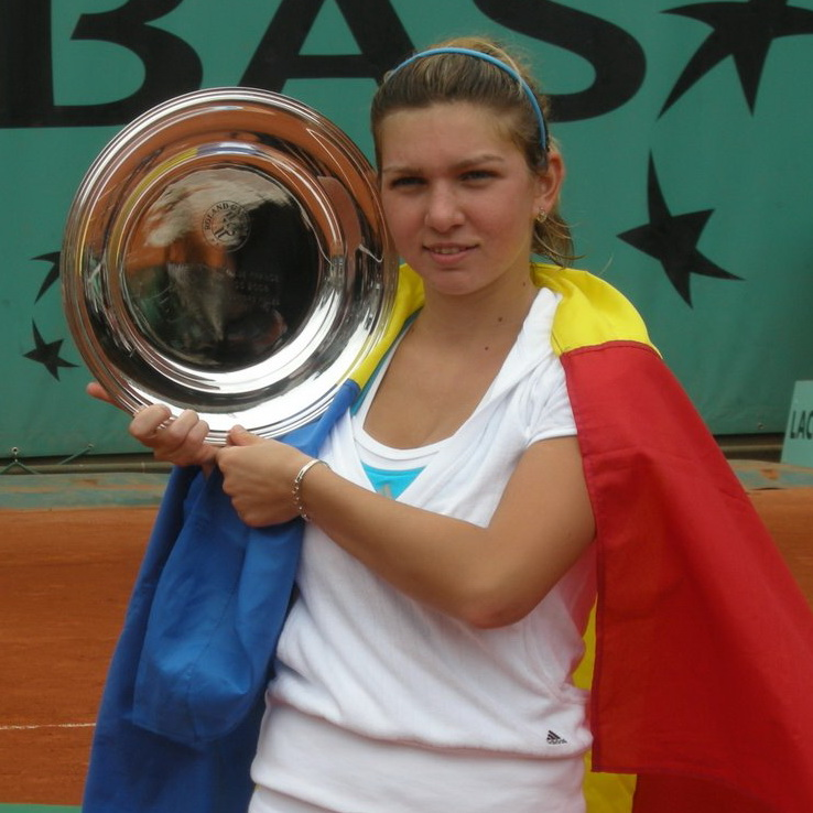 Simona Halep with the French Open Junior Championship